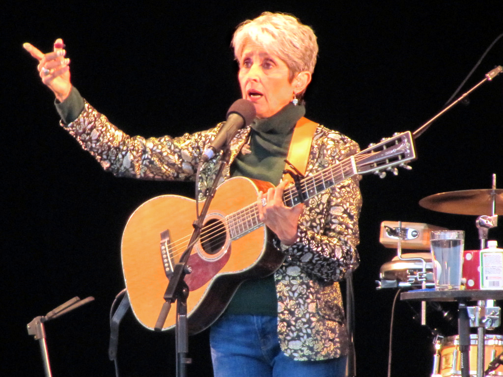 taken on 8/13/09 at a concert in Seattle.